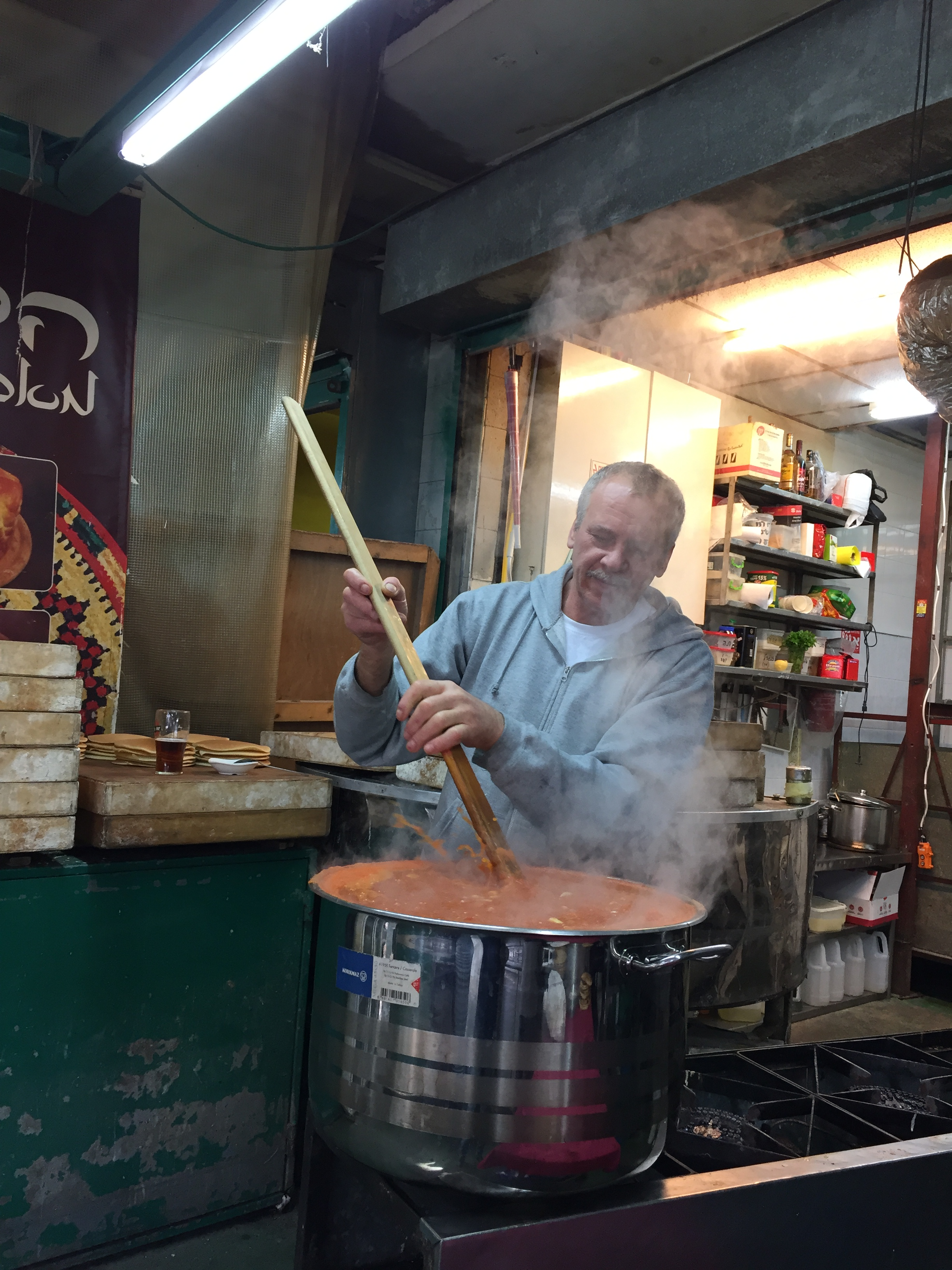 Hatikva Market is known for shops and restaurants that offer various ethnic cuisines. The picture shows cooking in a restaurant and bakery in Hatikva Market that offers traditional Yemenite cuisine.